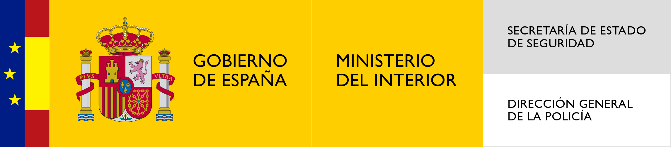 Logo of the Directorate-General of the Police of Spain.